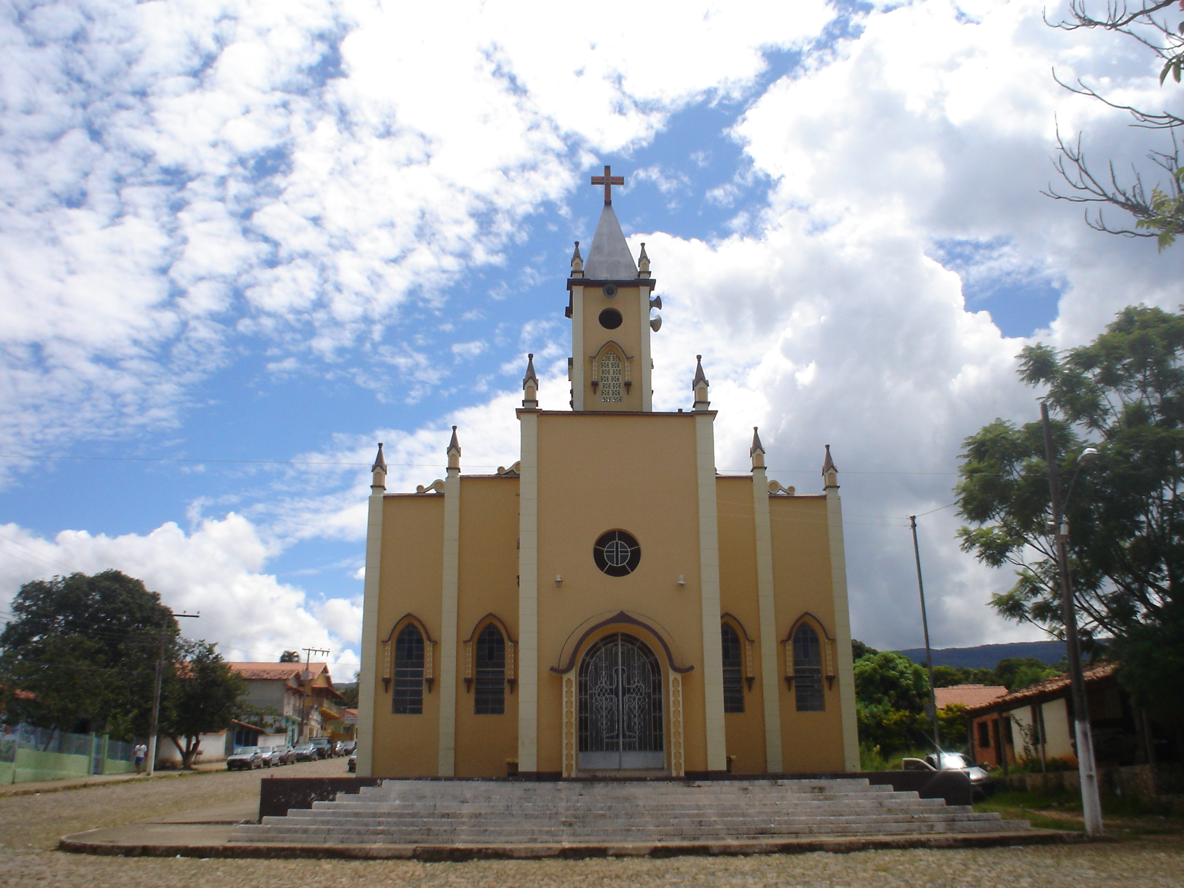 A church in Santana do Riacho.